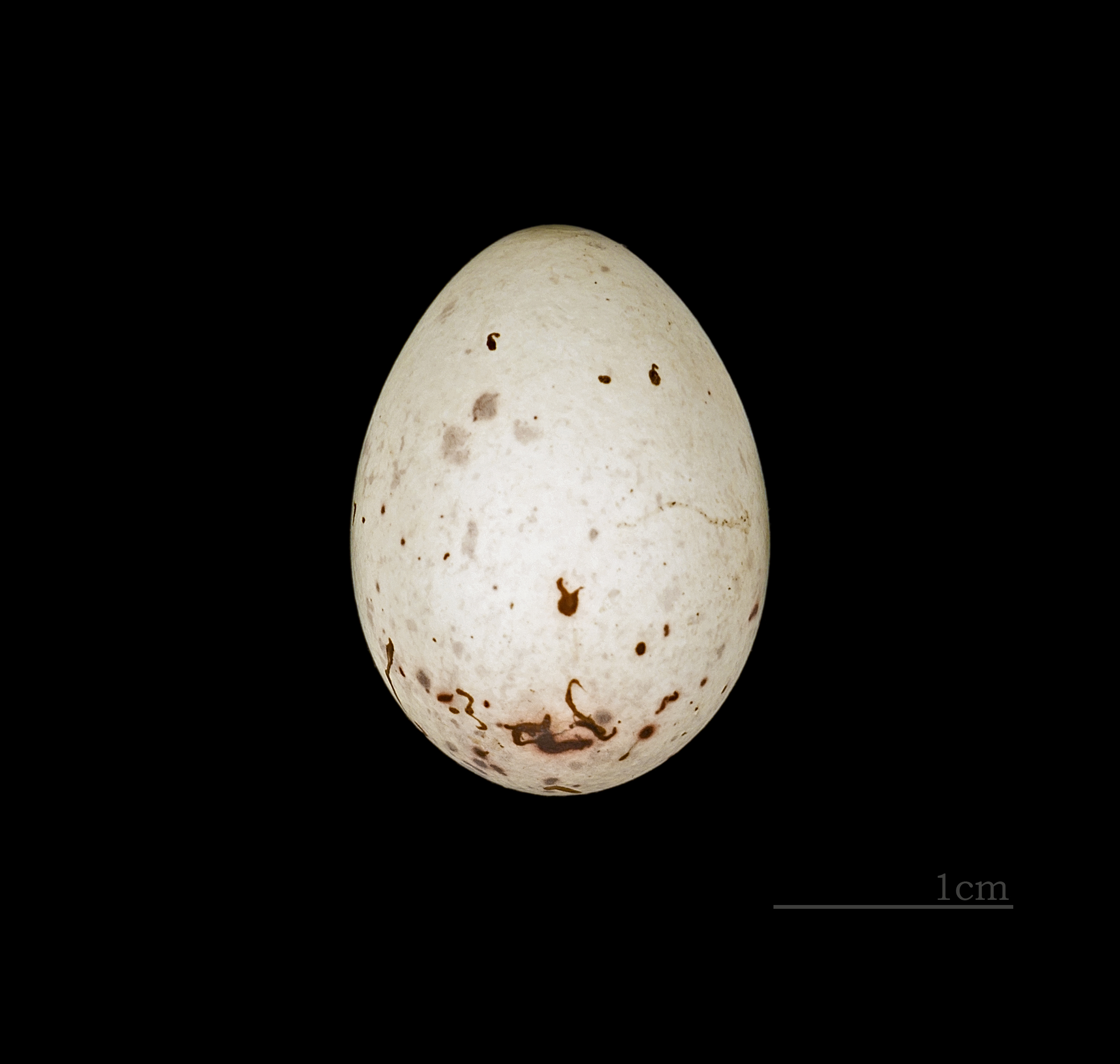 Egg of Parrot Crossbill - Collection of Henri Heim de Balsac /Jacques Perrin de Brichambaut